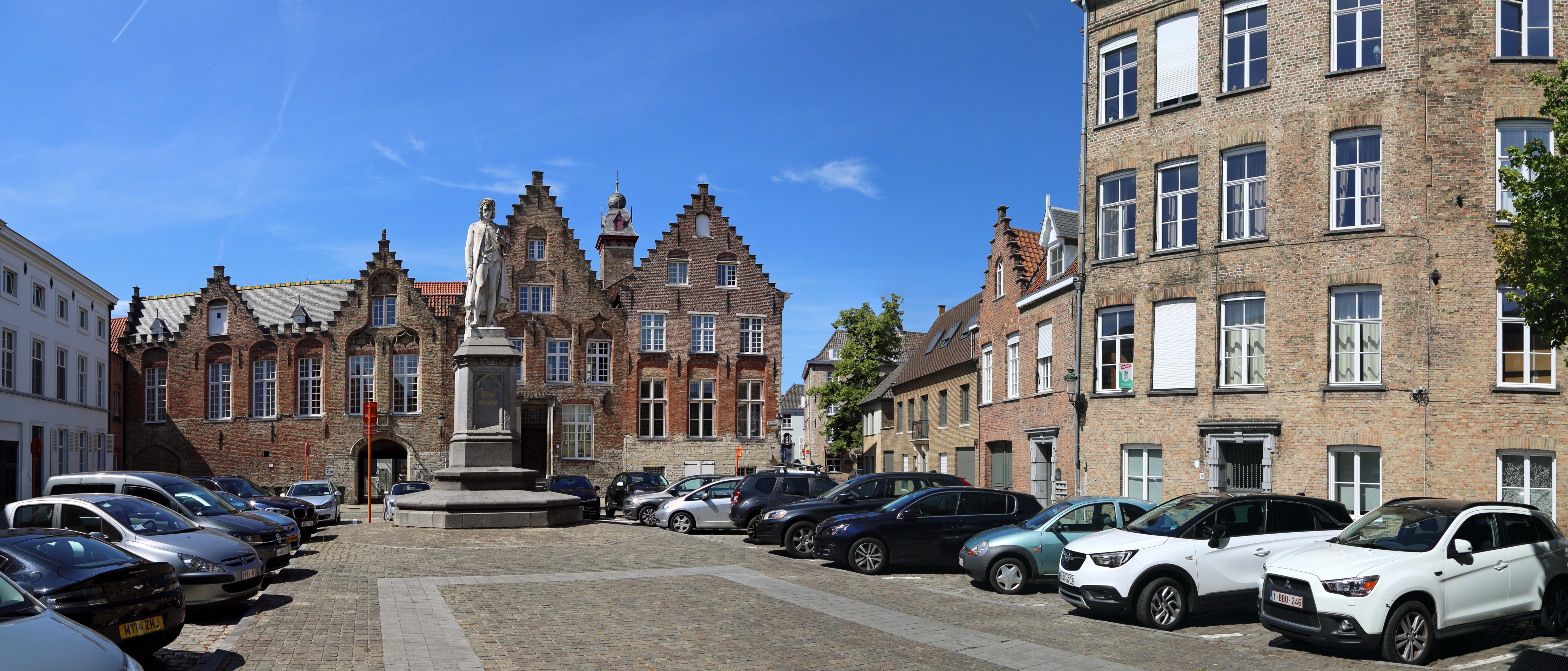 Bruges (Belgium): Woensdagmarkt